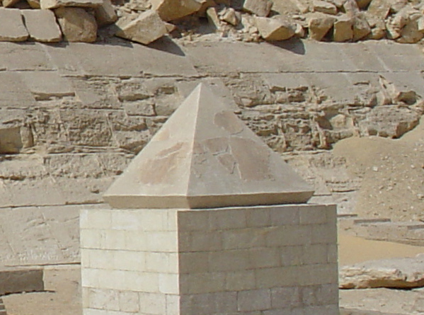 The restored pyramidion belonging to the Red Pyramid of Pharaoh Snoferu, at Dahshur, is now on permanent open air display beside the pyramid it was apparently intended to surmount.